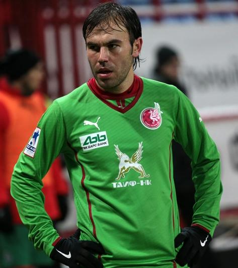 Bibras Natkho with FC Rubin Kazan in 2013.